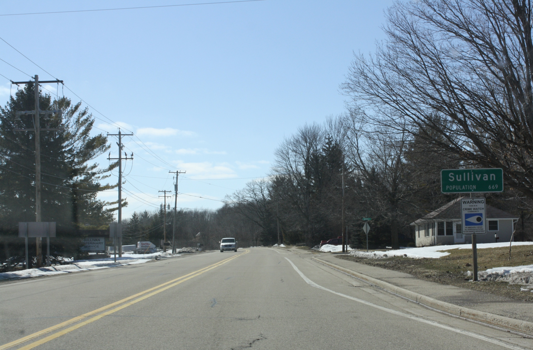 Looking westerly at the sign for Sullivan, Wisconsin on U.S. Route 18.